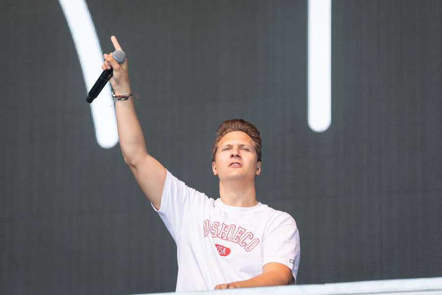 Matoma (real name Tom Stræte Lagergren) at Stavernfestivalen. The concert took place on 13. July 2019 in Stavern. Lineup:Tom Stræte Lagergren (disc jockey)